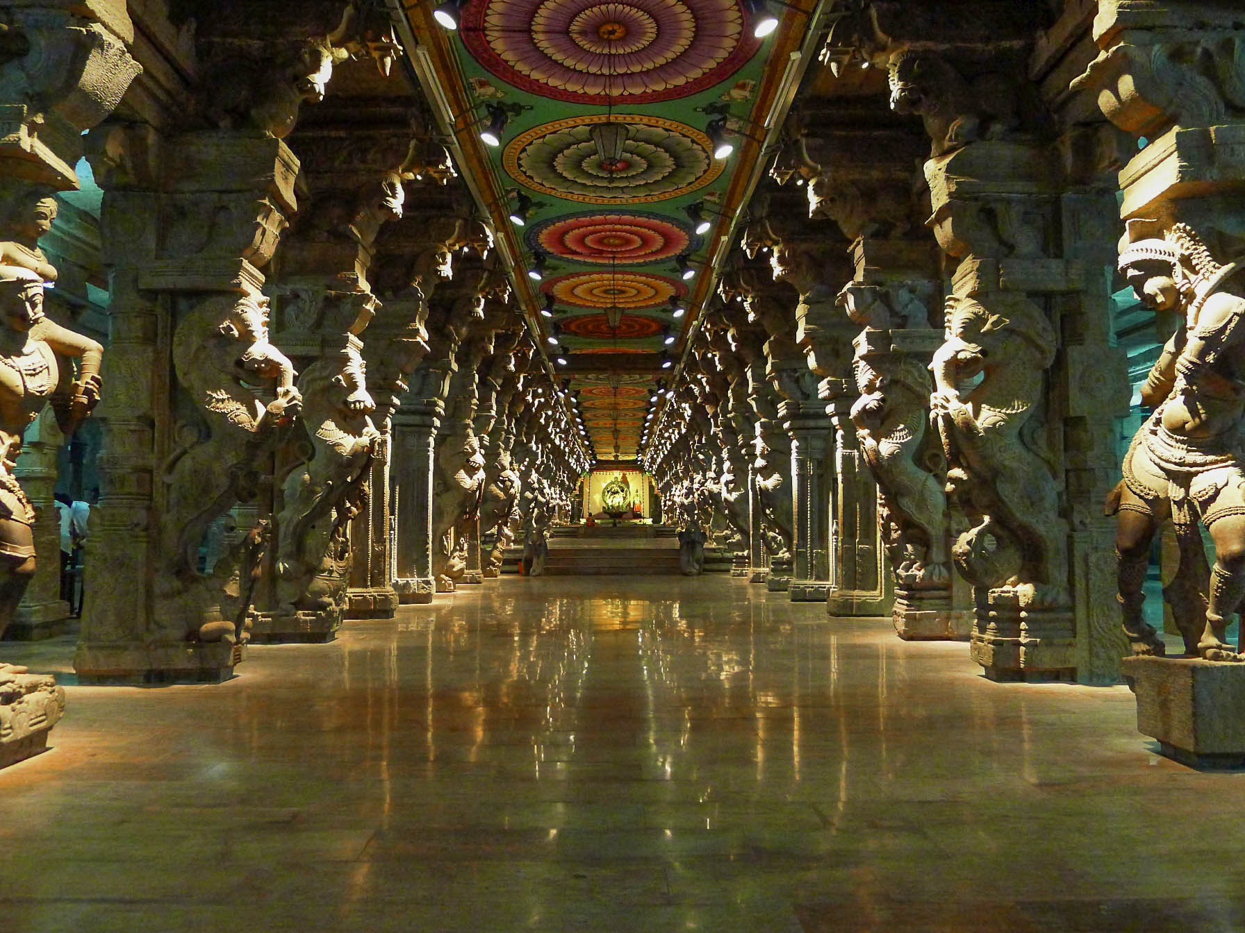 Meenakshi Amman Temple (Tamil: மீனாட்சி அம்மன் கோவில்) is a historic Hindu temple located in the holy city of Madurai, Tamil Nadu, South India.